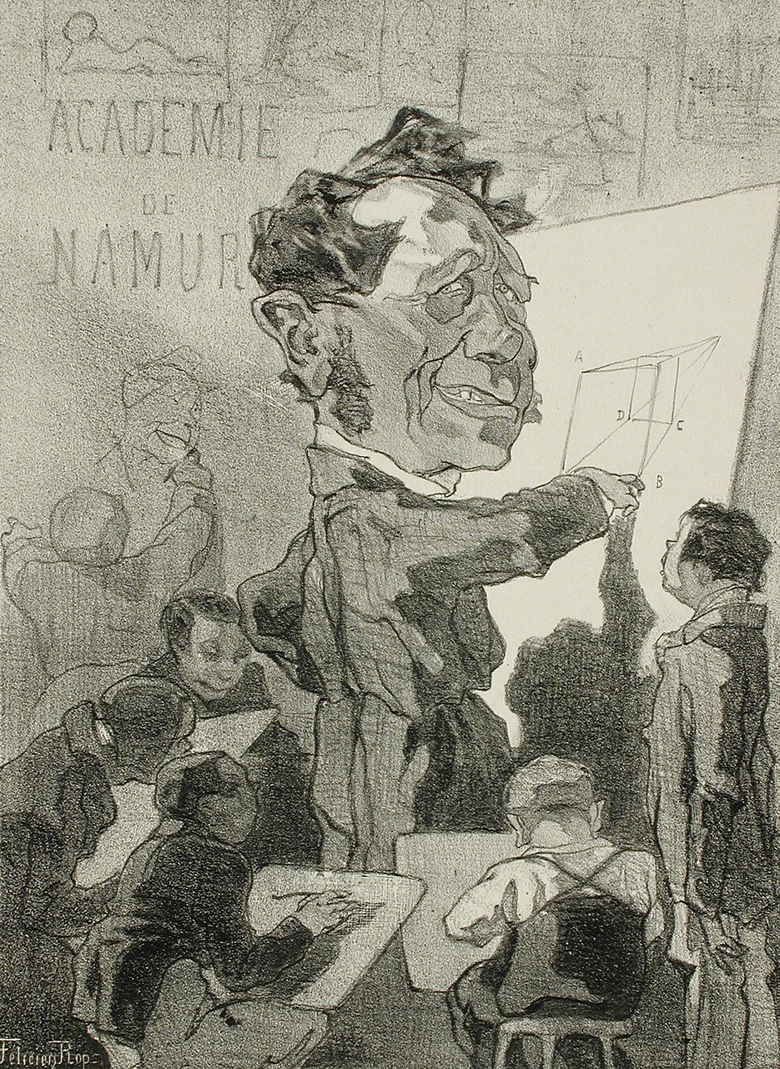 Belgium, 1857 Series: Galerie d'Uylenspiegel Periodical: Uylenspiegel, no. 28, 9 August 1857 Prints; lithographs Lithograph 11 1/2 x 8 3/8 in. (29.21 x 21.27 cm) Gift of Michael G. Wilson (M.80.277.32) Prints and Drawings